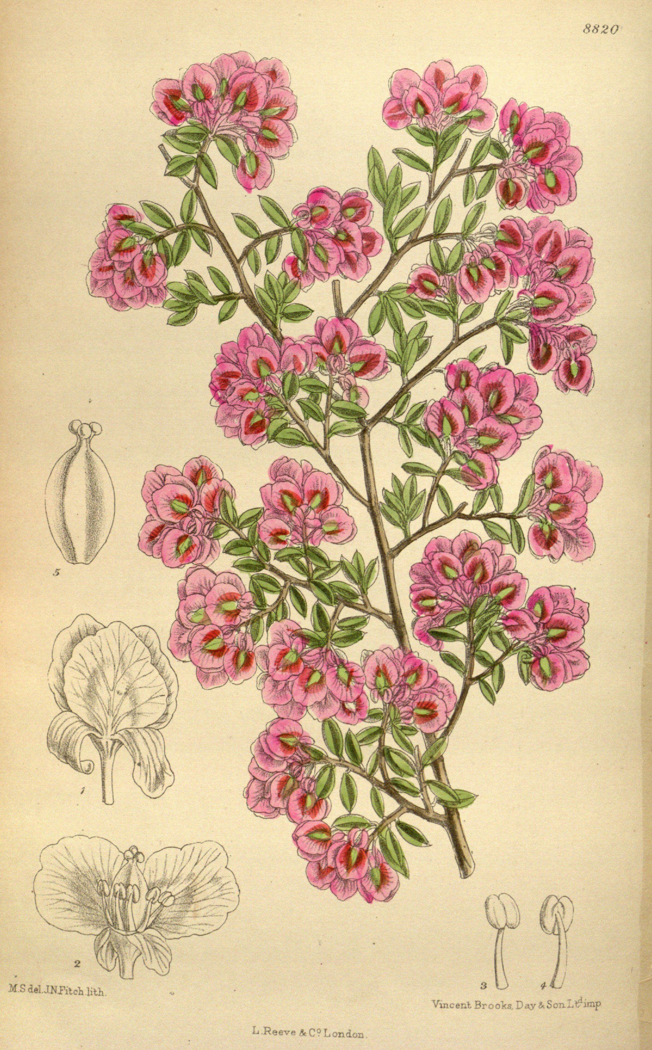 Atraphaxis billardierei, Polygonaceae